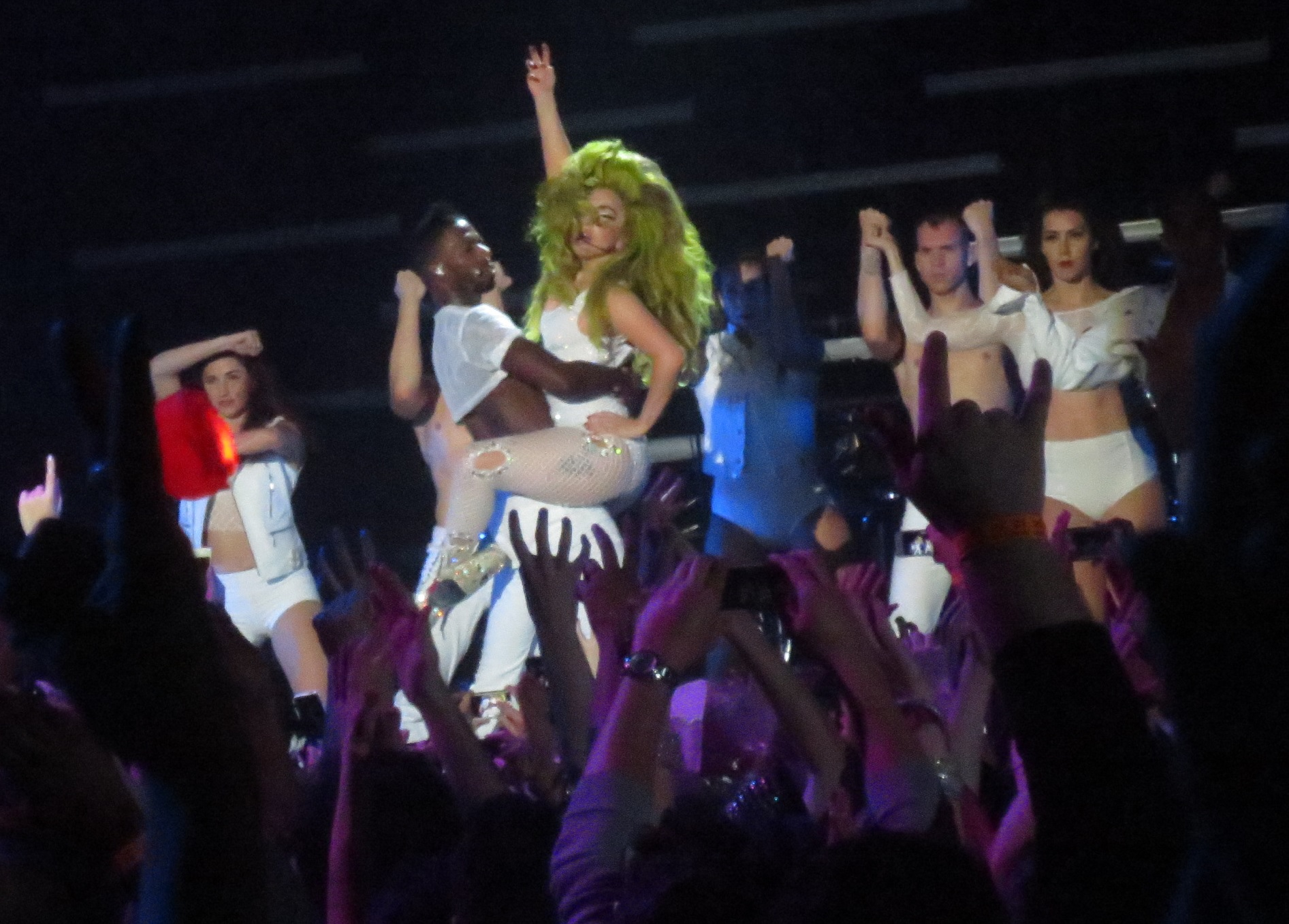 Lady Gaga "GUY" Roseland